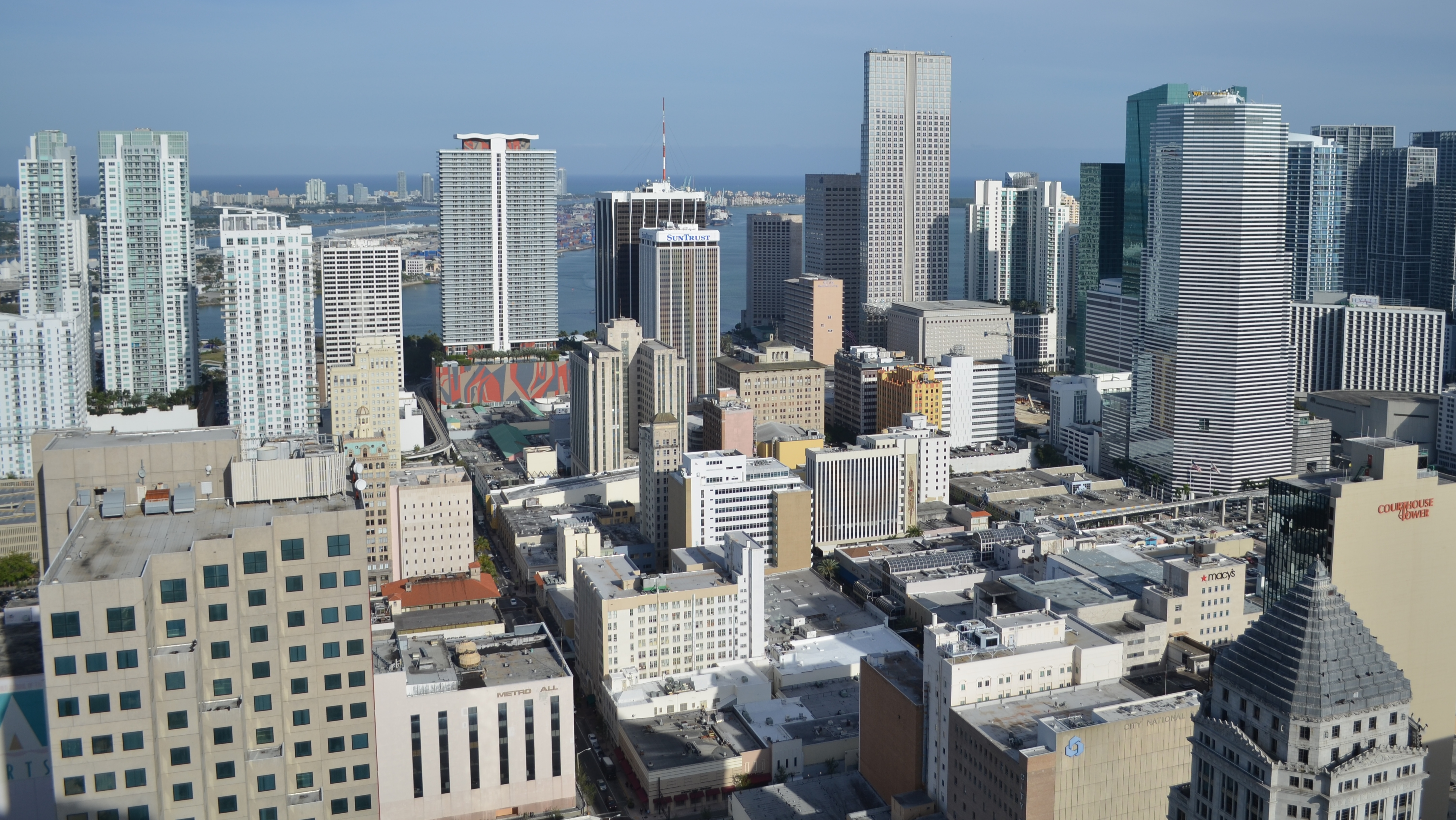 Aerial view from the west of the Central Business District (Miami) from the Government Center (Miami) area.